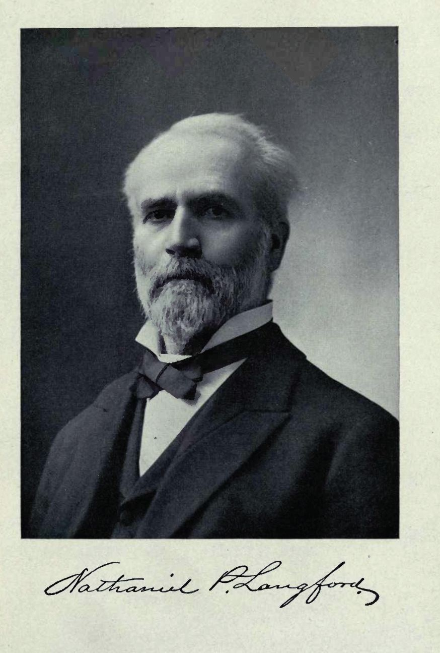 1905 Portrait of Nathaniel Pitt Langford